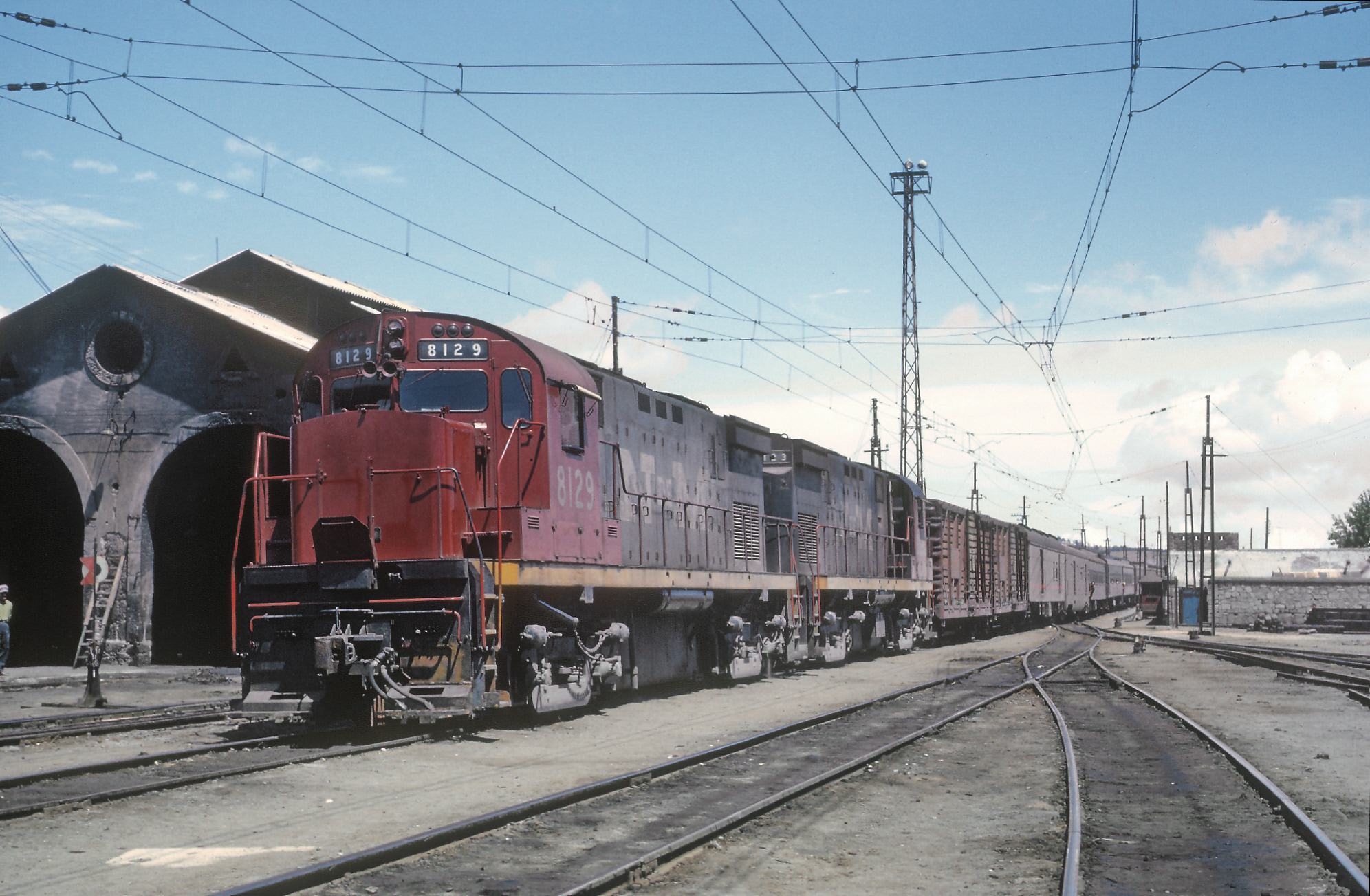 NdeM 8129, an ALCO C424, with eastbound Train 52 arriving at Esperanza, Que, Mexico on September 11, 1966.